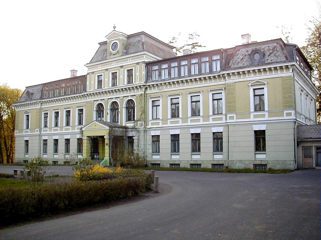 Main Building of Kokenhof estate (lv: Kokmuiža pils)